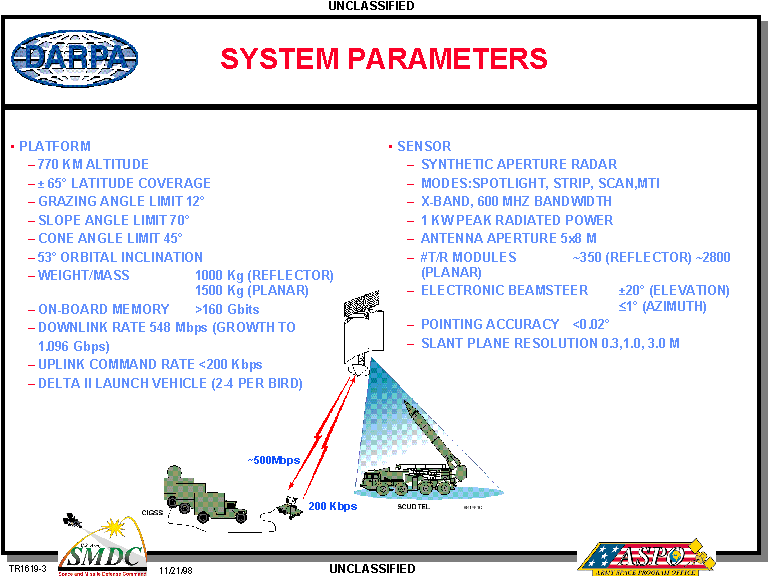 Discoverer II System Parameters, DARPA, November 21, 1998.